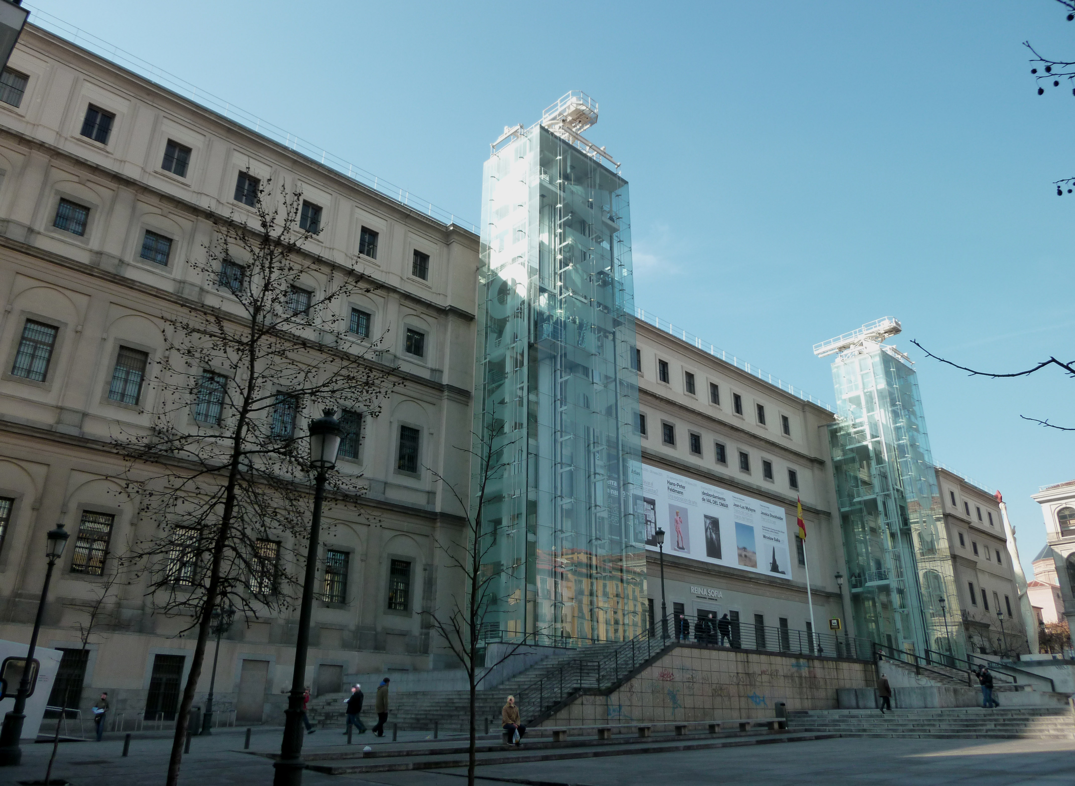 North-east façade of Queen Sofia Museum (MNCARS) in Madrid (Spain).